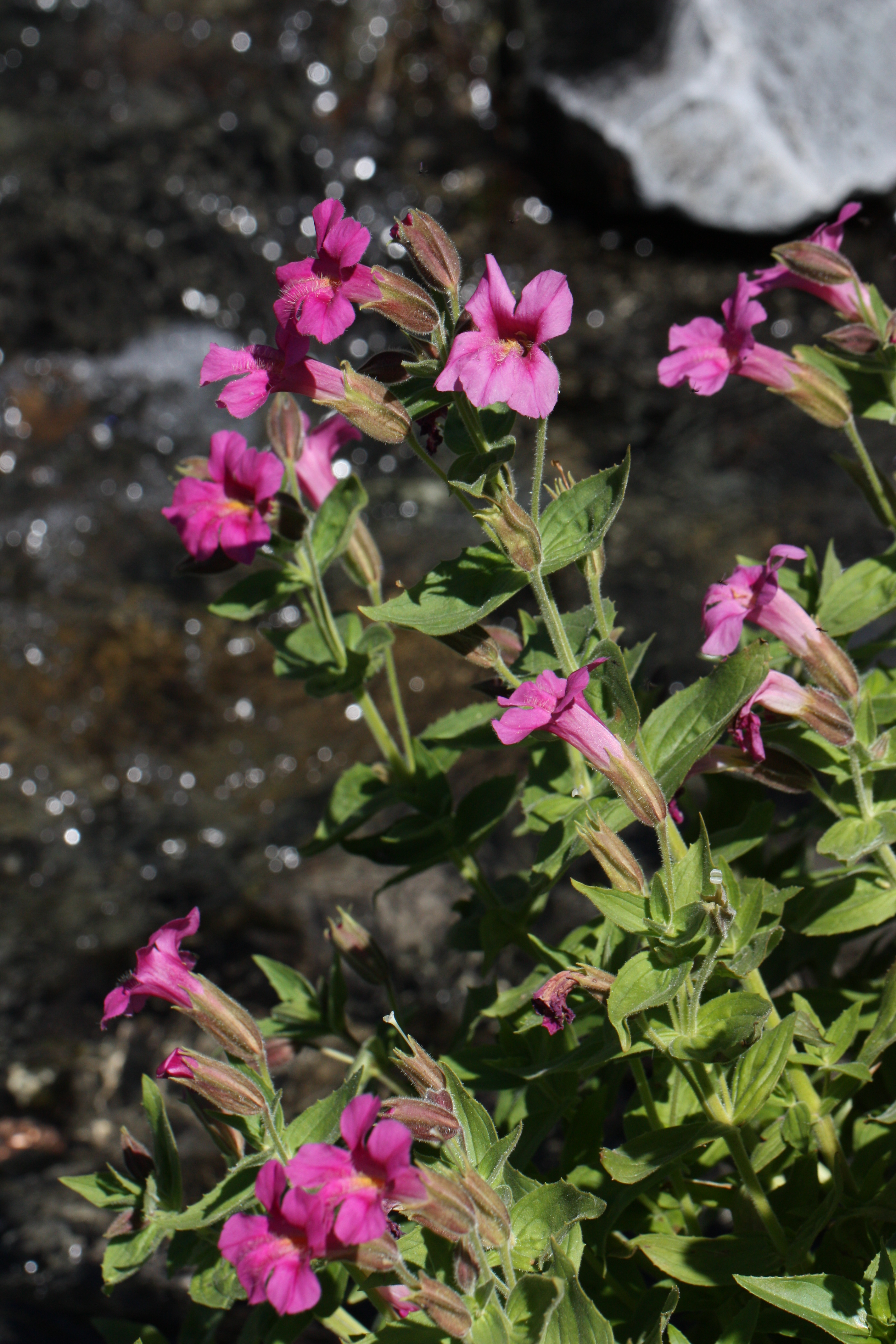 Purple Monkey-flower